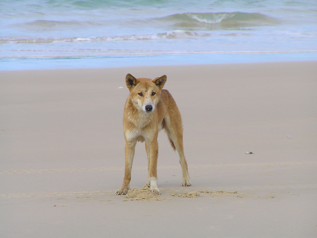 dingo, fraser island, australia